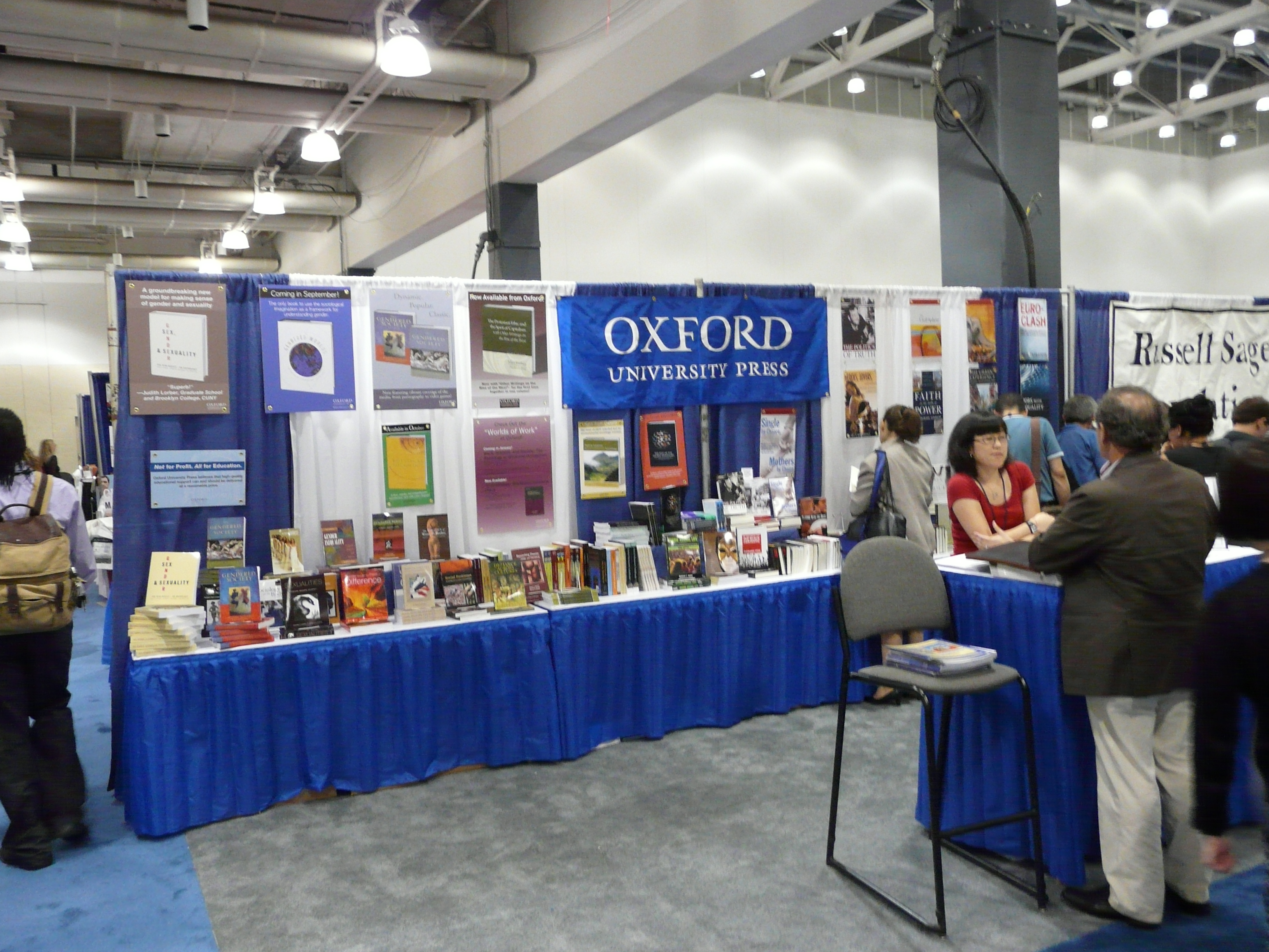 Boston. American Sociological Association conference.